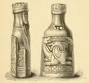 Illustration of the Clonard chess Piece, a 12th century ivory artefact found in Ireland before 1817, from the 'Book of Rights '(John O'Donovan, Dublin, 1847), p.lxi-lxi, 35